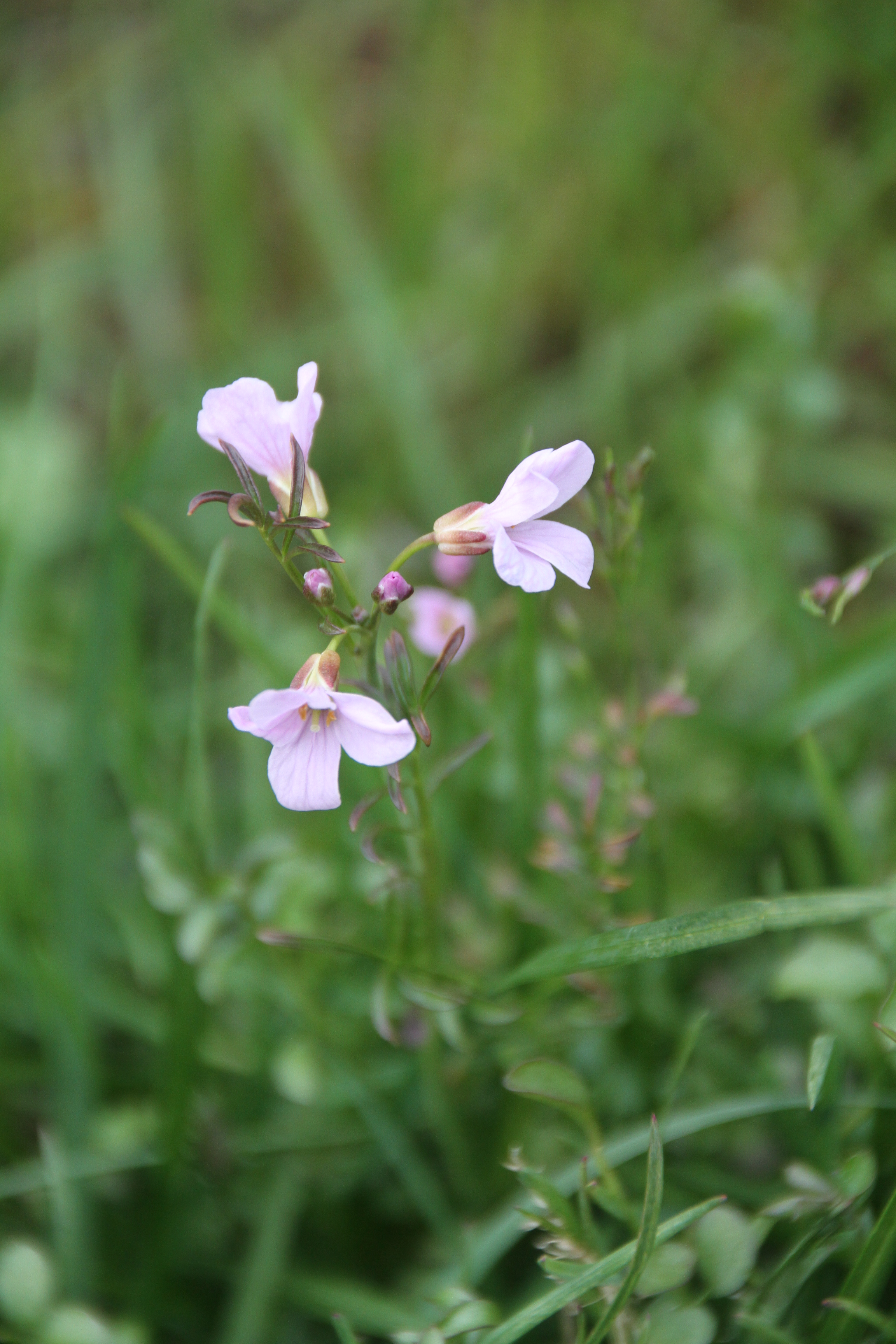 Plants at the Hotellneset / Vestpynten plain south of Longyearbyen airport, Spitsbergen (Norway Norwegian name = Polarkarse.